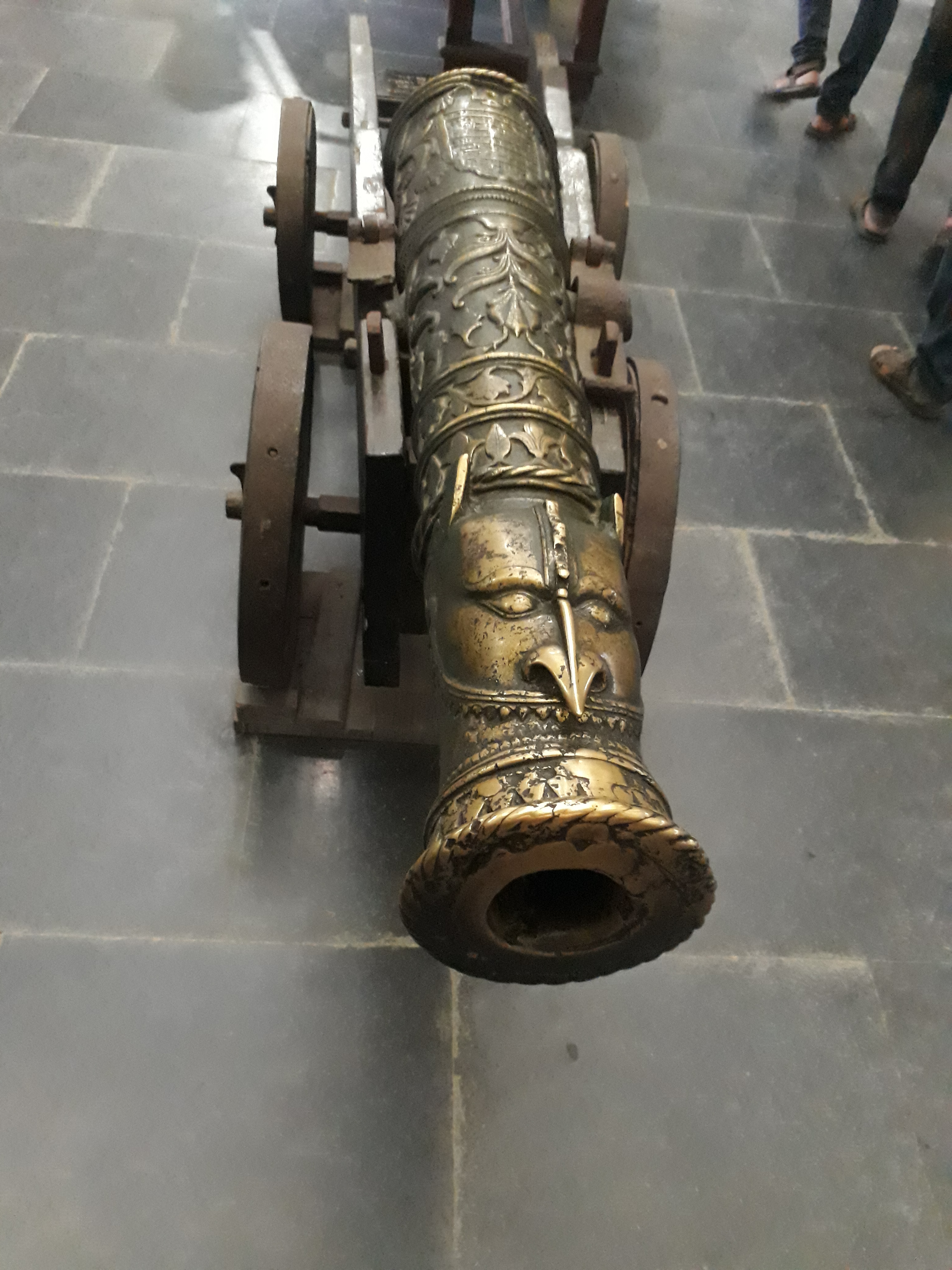 This is very unique canon ..was used by the East India company against the Indian revolutionary during Sepoy mutiny in 1857